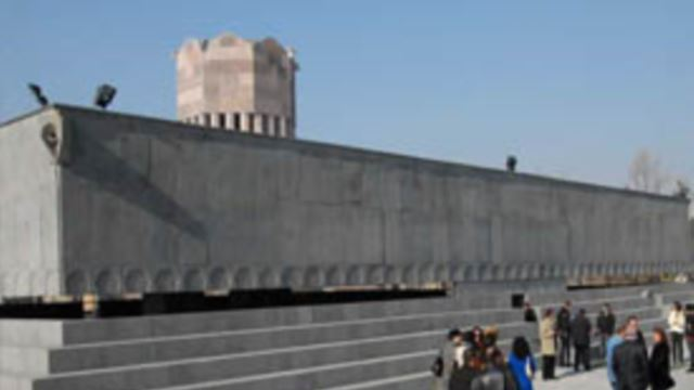 Repressed memorial in Yerean